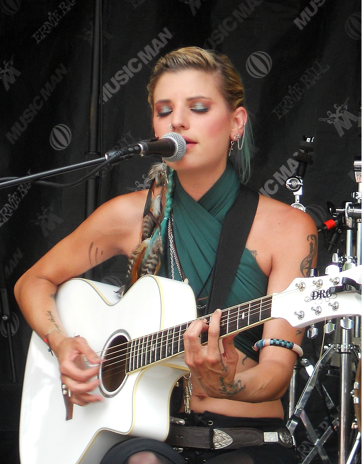 Juliet Simms on the 2011 Warped Tour